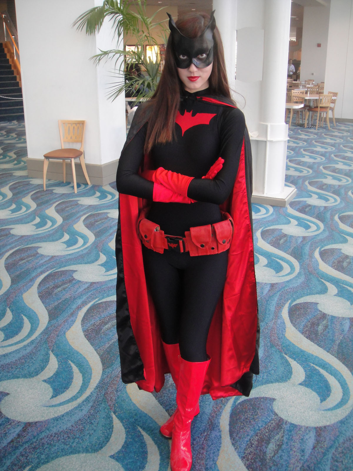 photo 2011 Pop Culture Geek taken by Doug Kline If you're interested in higher resolution versions of my images, contact me via my profile page.